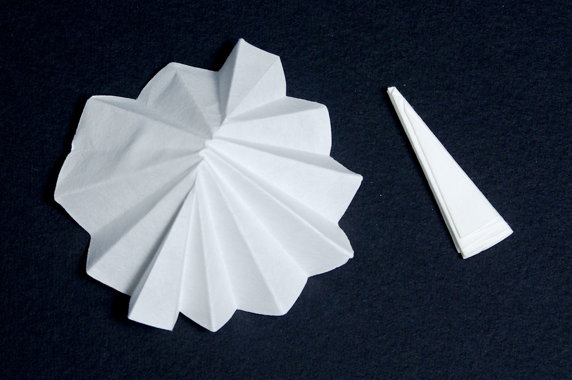 Laboratory paper filters